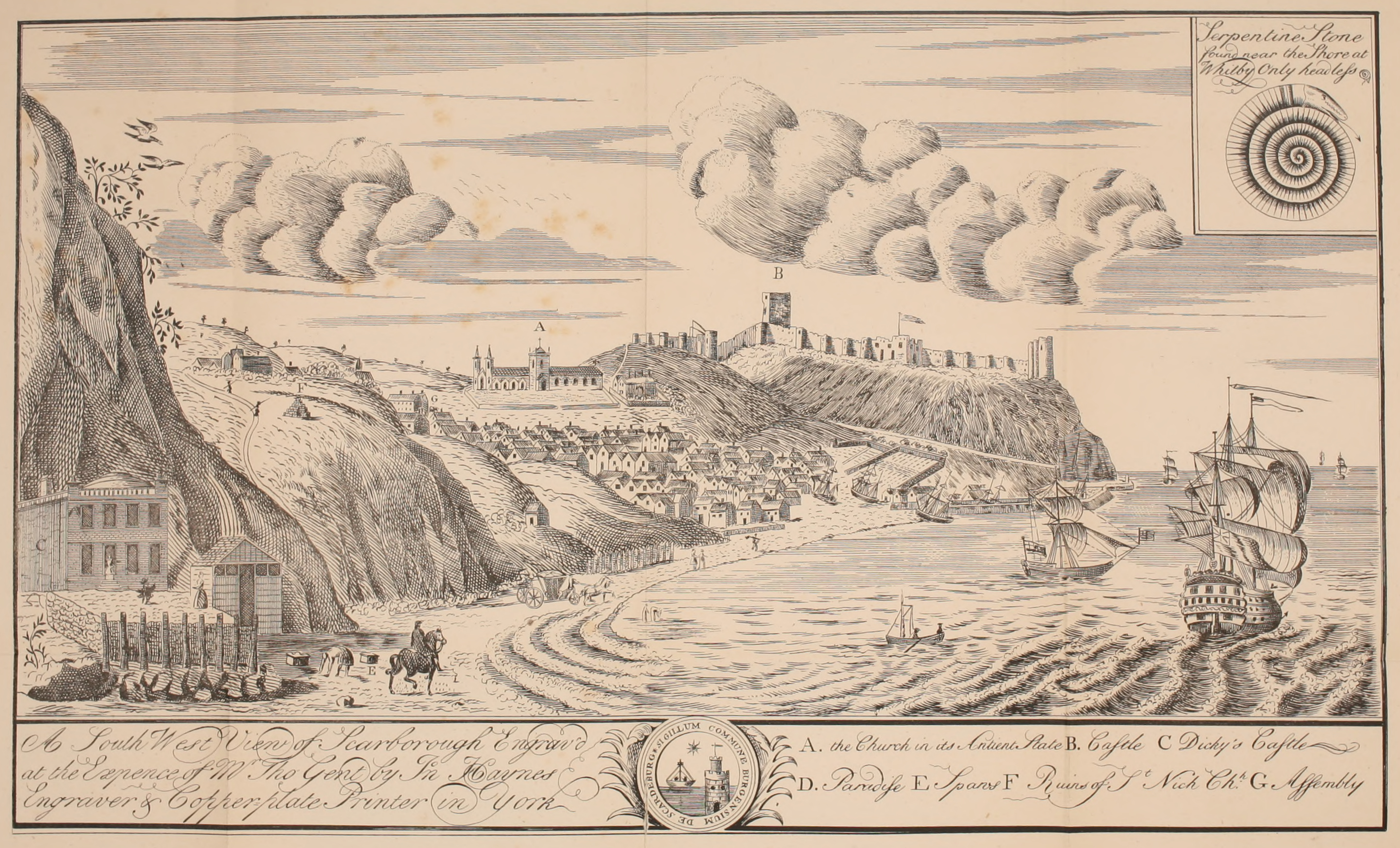 At end of book Engraving by Mr. Haynes of York